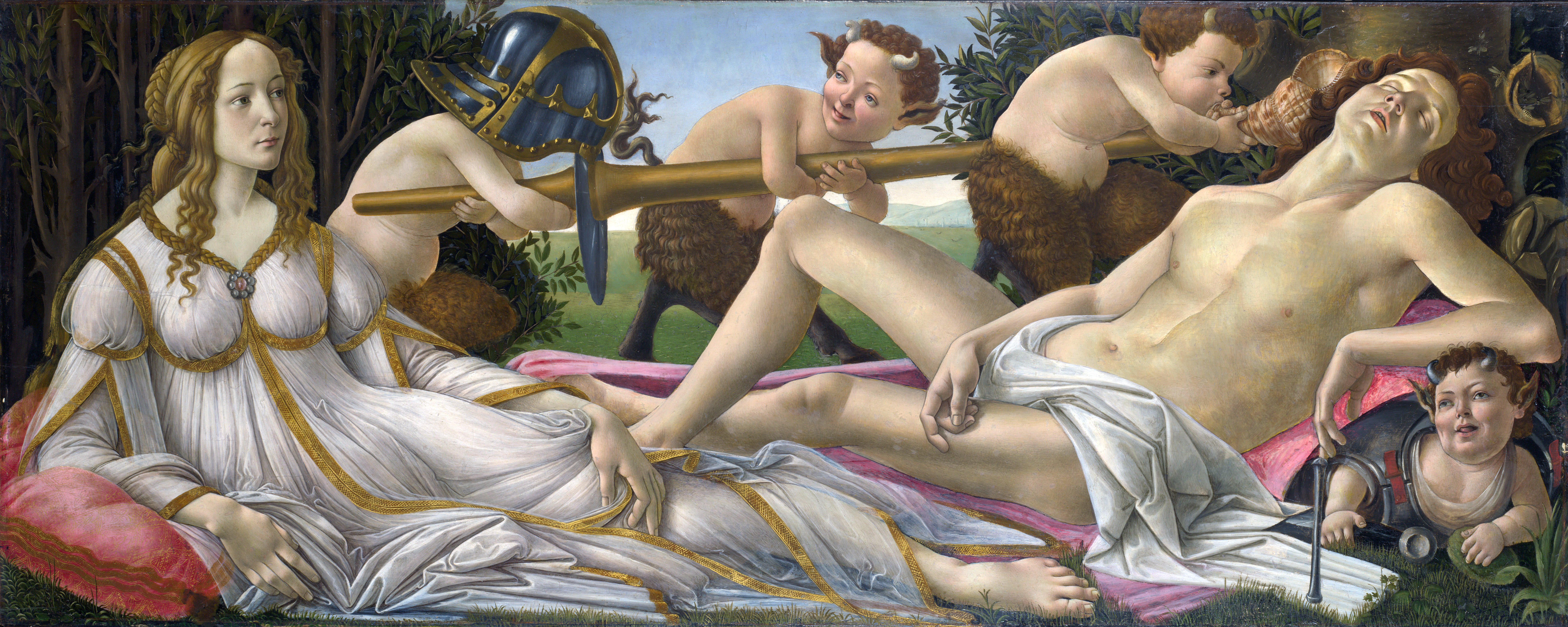 Dionysus is described as having 'perfumed hair in golden curls', with feminine attributes as depicted here including wider hips and larger breasts.[1]